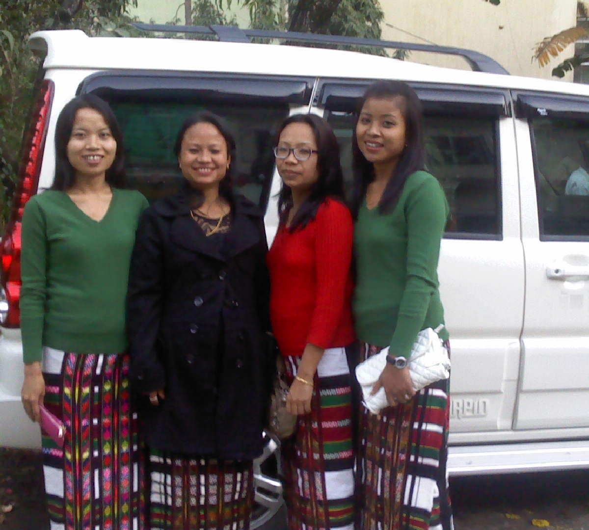 Faihriem girls in cultural dress